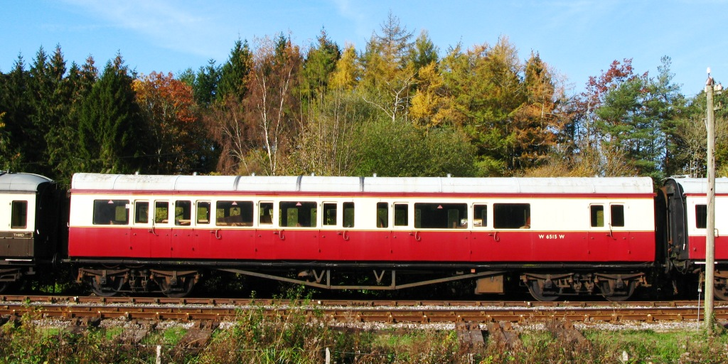 A Great Western Railway coach on the South Devon Railway. 6515 was designed by Charles Collett as a corridor brake composite (that is, with both first and third class compartments), but has been downgraded to a brake third. It is presereved in the British Railways livery of the early 1950s.